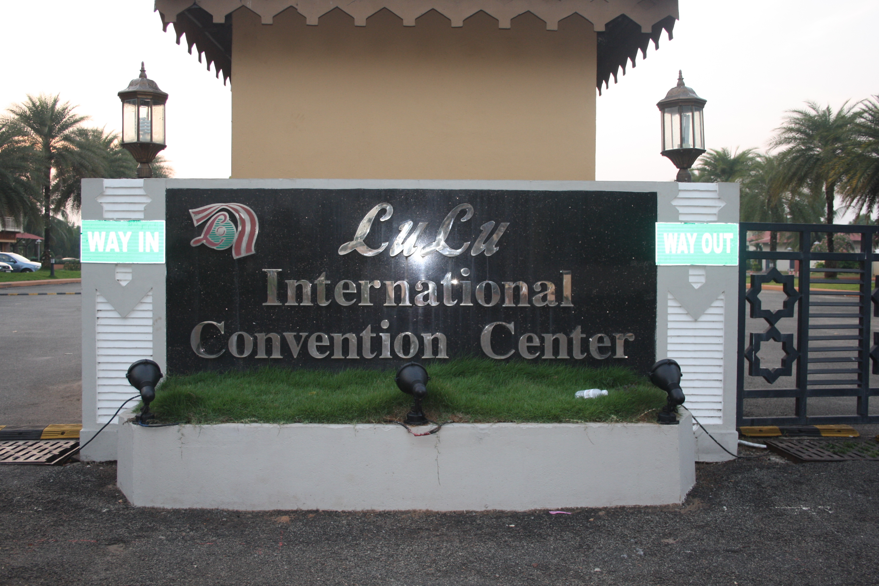 Entrance of the LuLu Convention Centre, located at Puzhakkal, in Thrissur City of Kerala state.